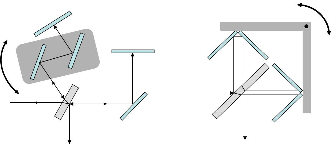 Schematics of interferometers for IR spectroscopy where the path difference is generated by a rotary motion